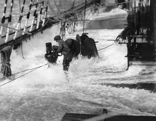 original description and information: "Rounding Cape Horn on the 'Parma'